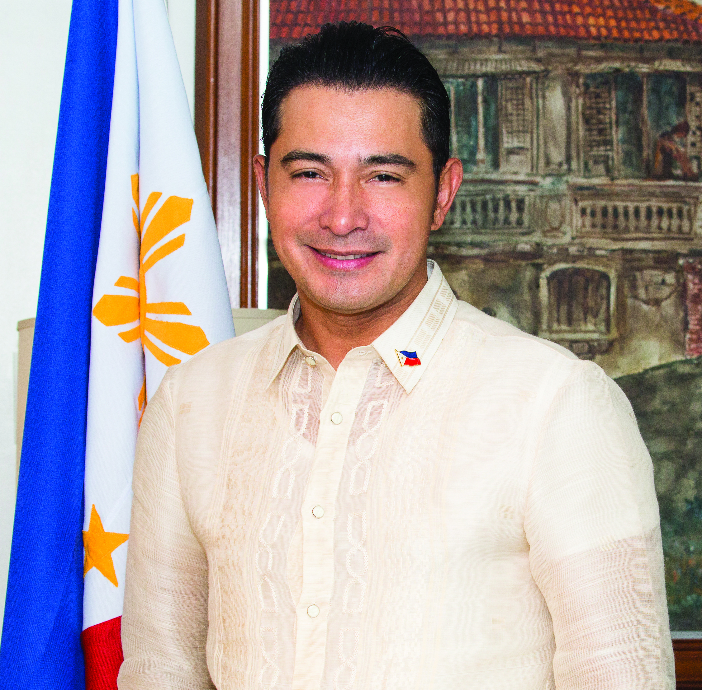 Cesar Montano as Chief Operating Officer of the Tourism Promotions Board, the marketing and promotions arm of the Department of Tourism (DOT) and among its responsibilities is to promote and develop tourism as a major socio-economic activity to generate foreign currency.